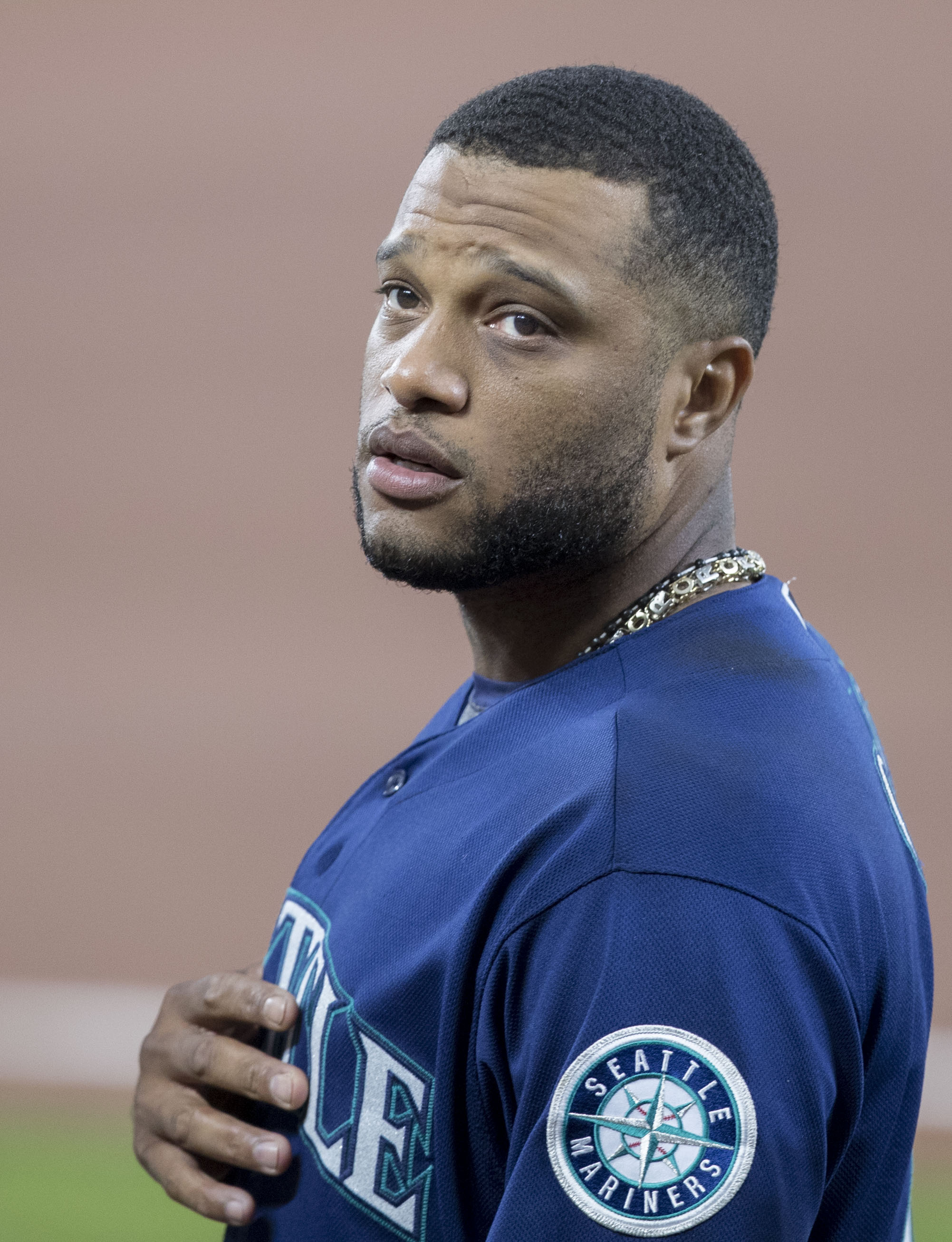 Mariners at Orioles 8/29/17